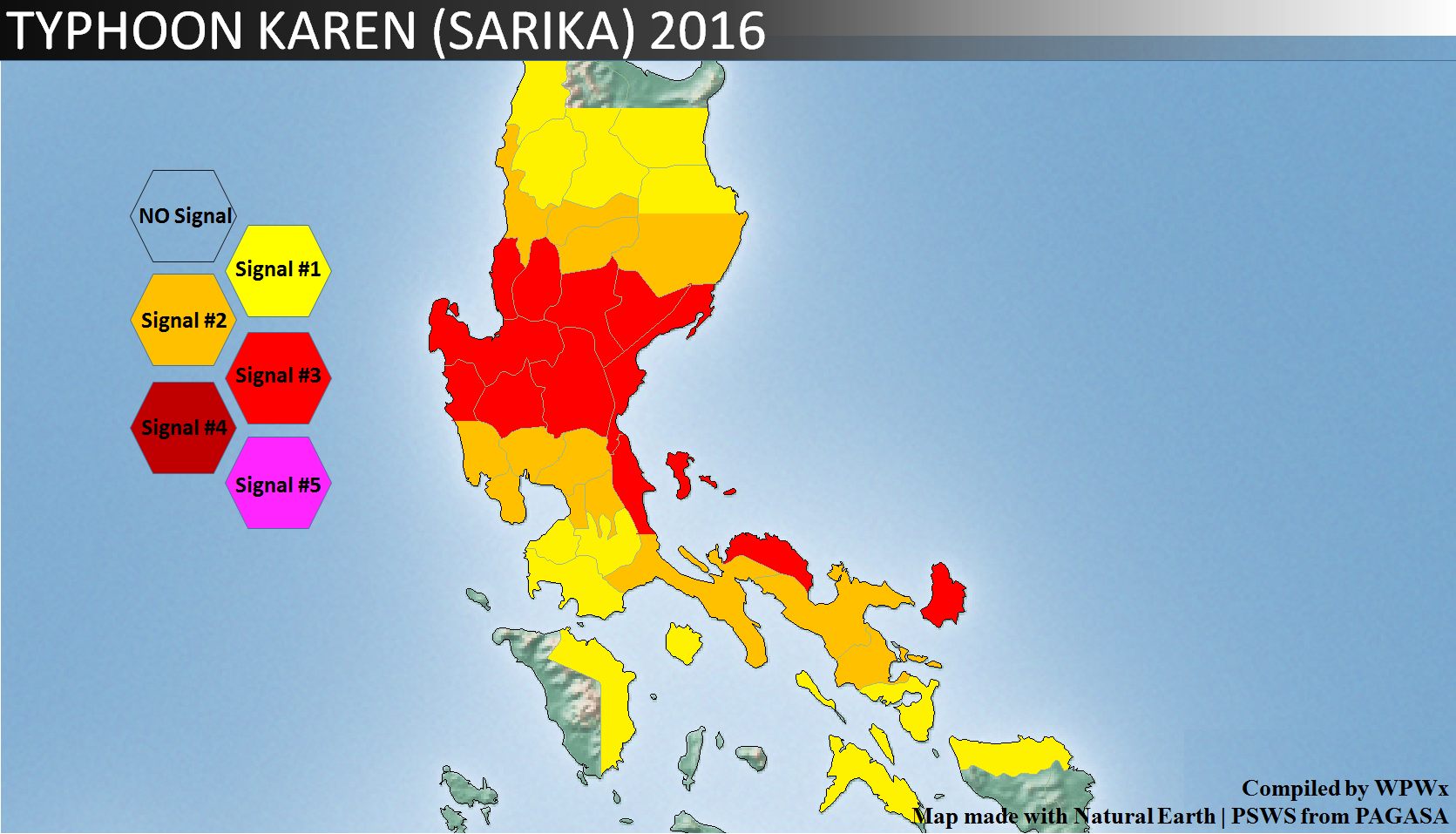 Highest PSWS raised by PAGASA across the Philippines in relation to Typhoon Karen (Sarika)